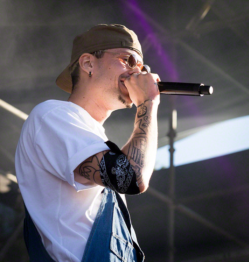 Unge Ferrari at the minor stage during Stavernfestivalen in Stavern on 09. July 2016. Lineup:Stig Haugen (vocal)